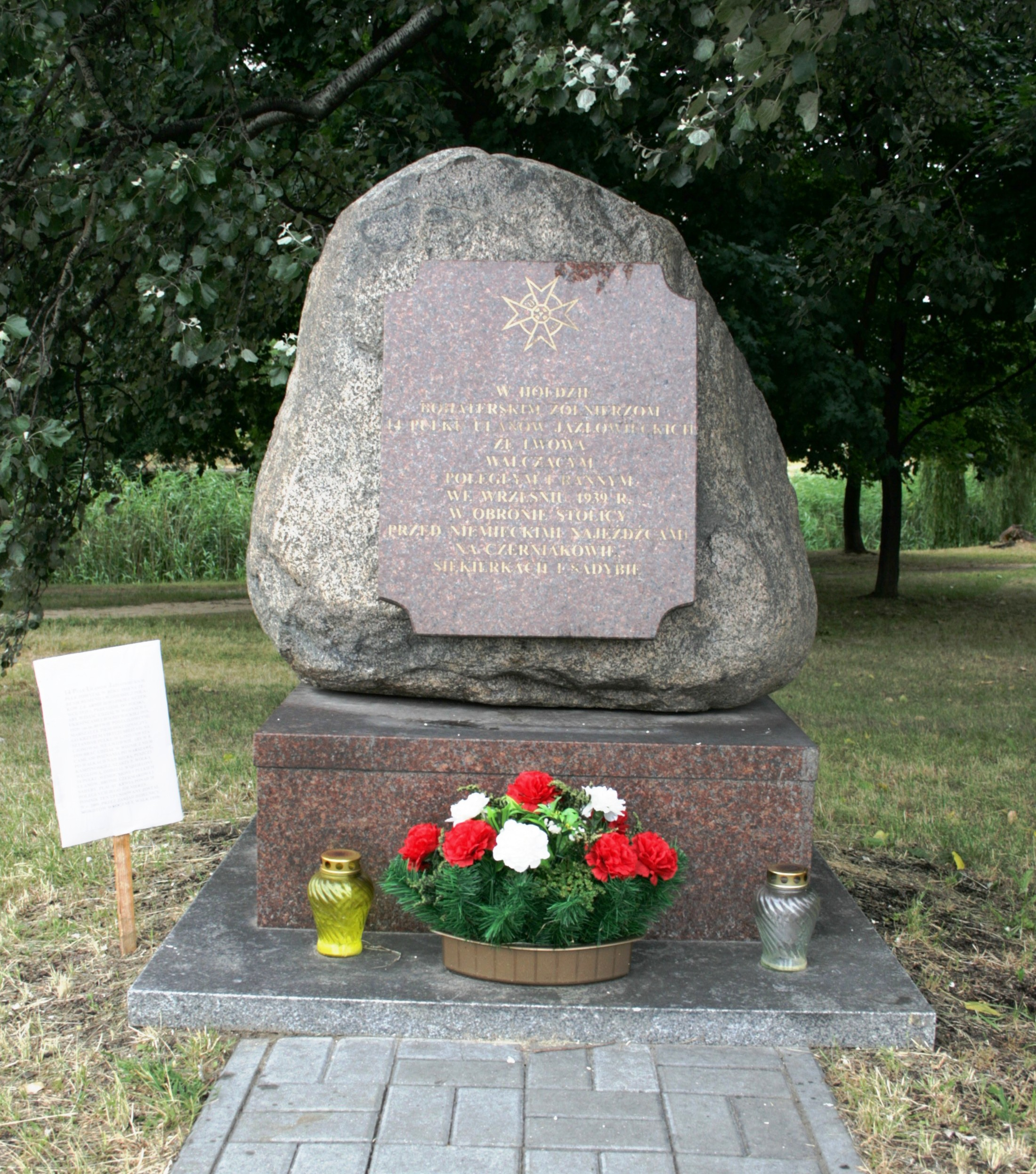 A stone commemorating the 1939 defense of Warsaw by Ulani Jazlowieccy